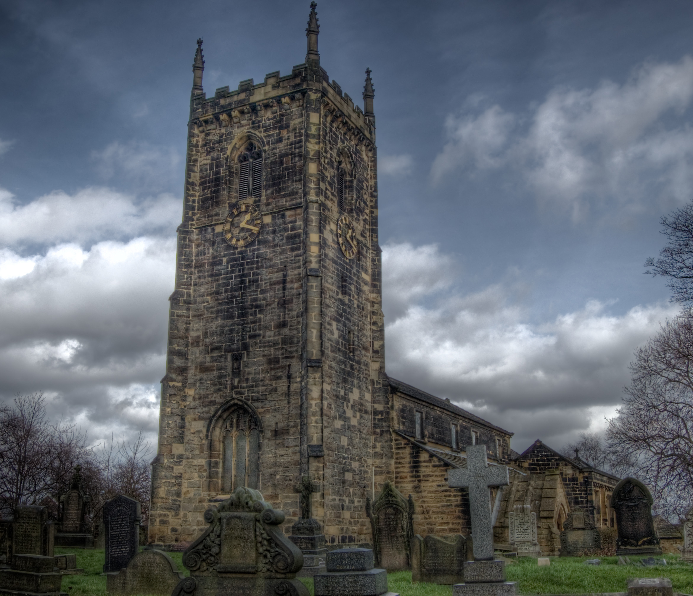 All Saints Parish Church, Normanton, West Yorkshire, seen from the southwest